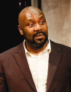 British actor, writer and comedian Lenny Henry in The Comedy of Errors at the National Theatre in 2011